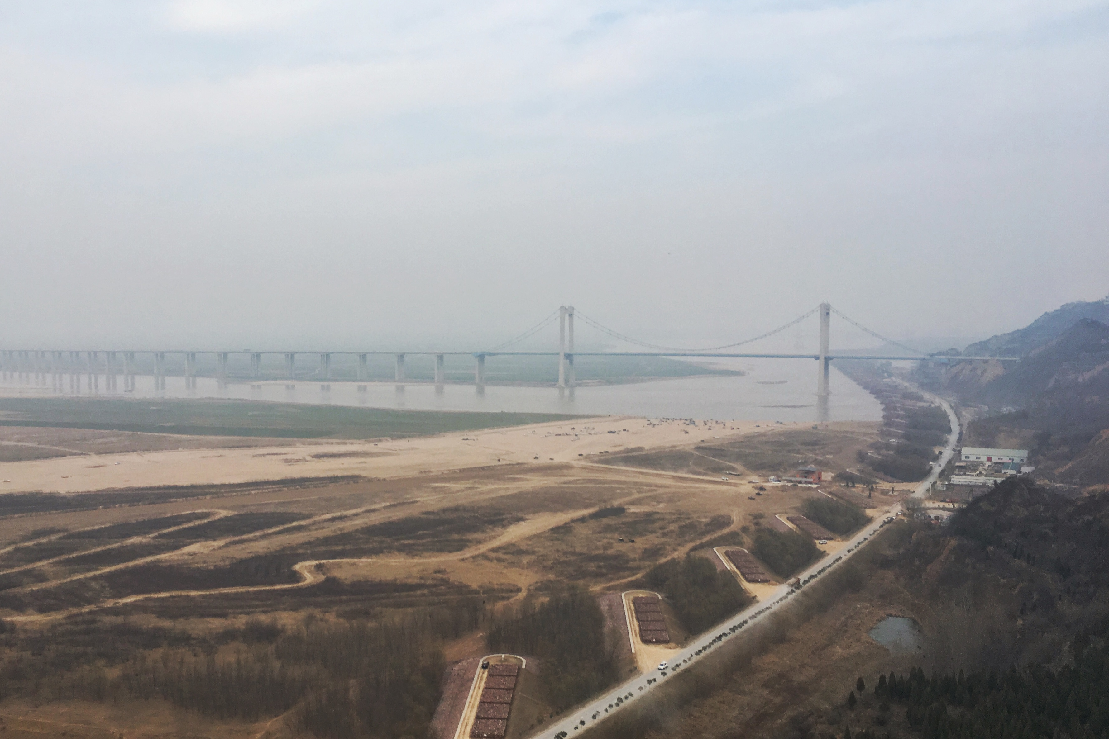 Taohuayu Yellow River Bridge